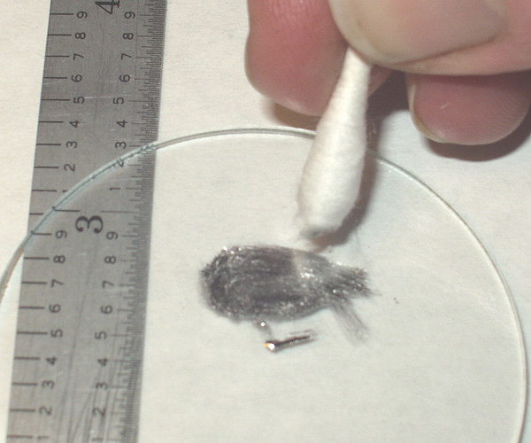 A tiny drop of galinstan (from a broken "mercury free" thermometer) easily wetting a 2" glass disk (protective goggle lens) at room temperature with a cotton swab, making a rough mirror. Note that the small puddle at the middle bottom is actually much more galinstan than was used to make the large (but very thin) smudge above it. Ruler shows inches.